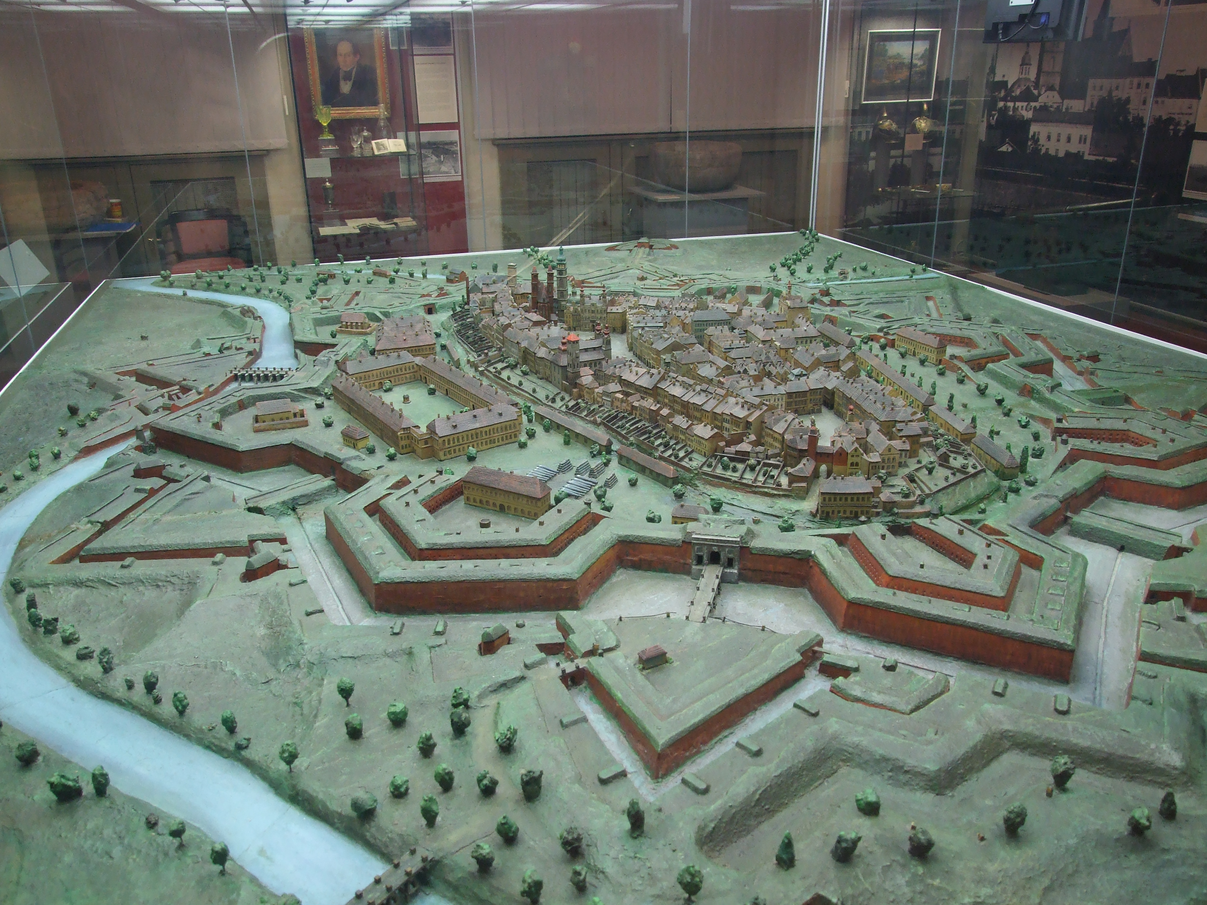 Exhibition item, Museum of Eastern Bohemia in Hradec Králové, Czech Republic